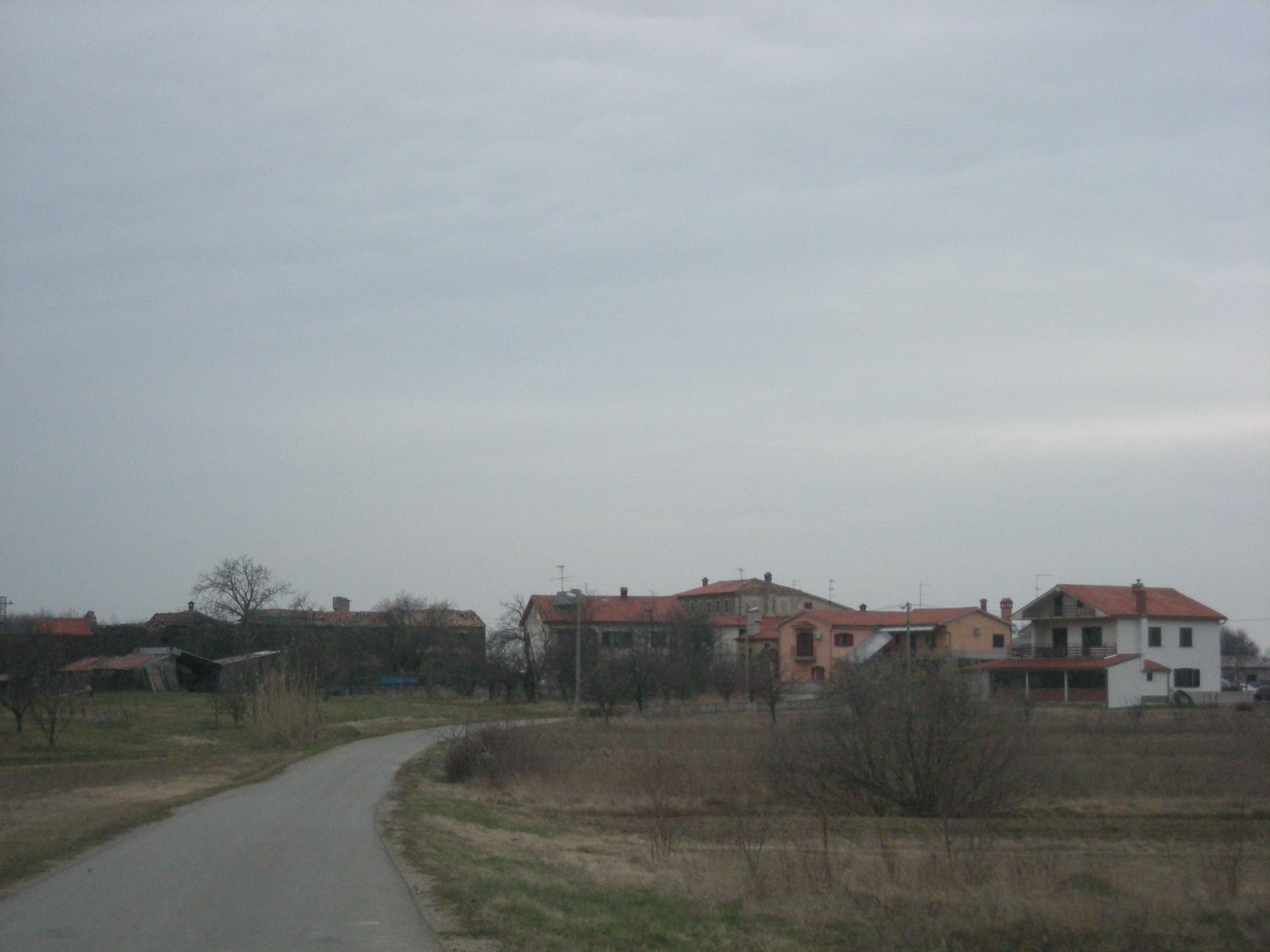 Sirči, small village in Koper municipality, Slovenia